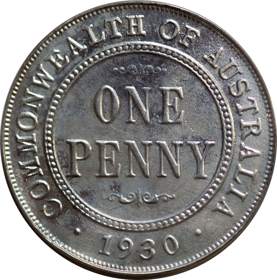 silver copy of a 1930 penny